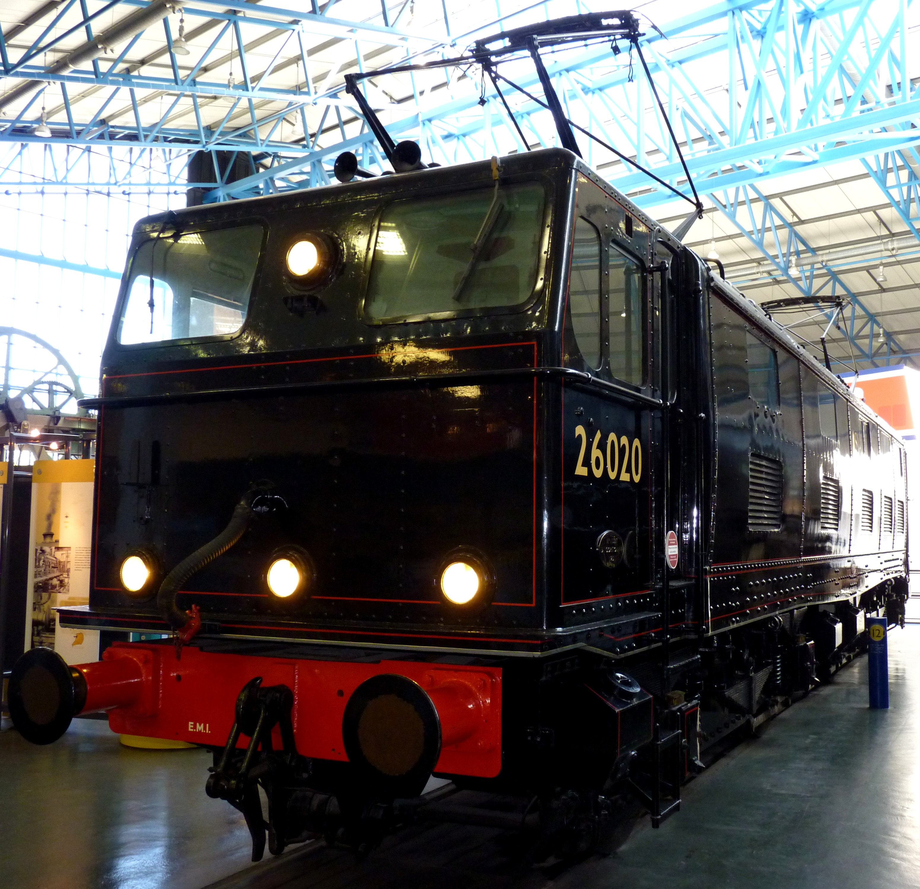 LNER EM1 class electric locomotive at the National Railway Museum in York.